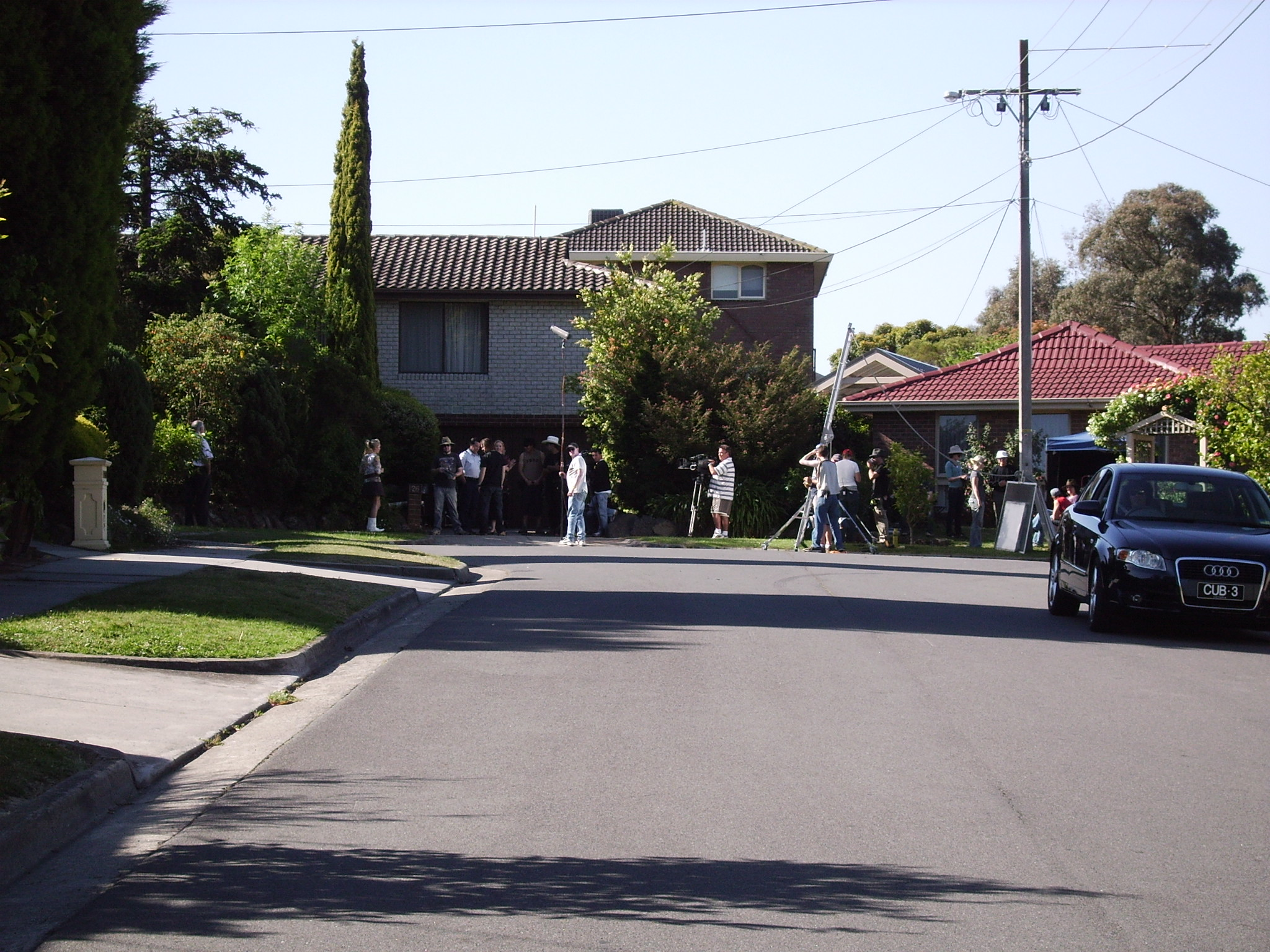 Australian soap opera Neighbours filming in Pin Oak Court.